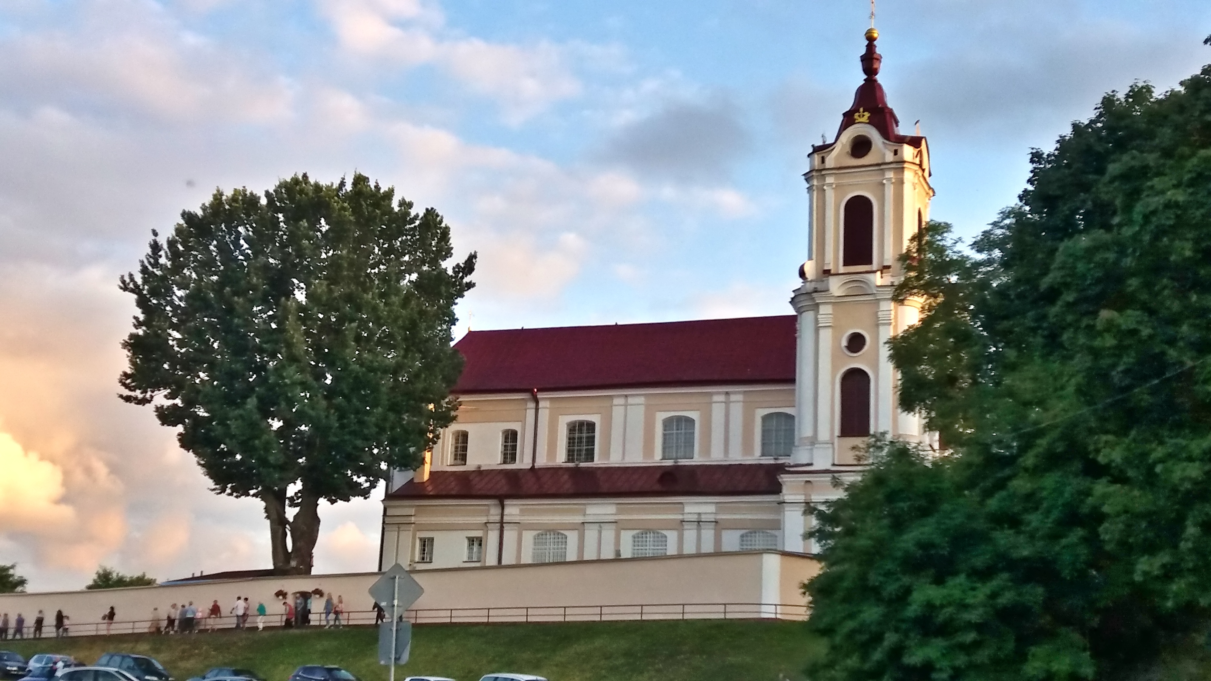 Franciscan church of St. Mary of the Angels in Hrodna